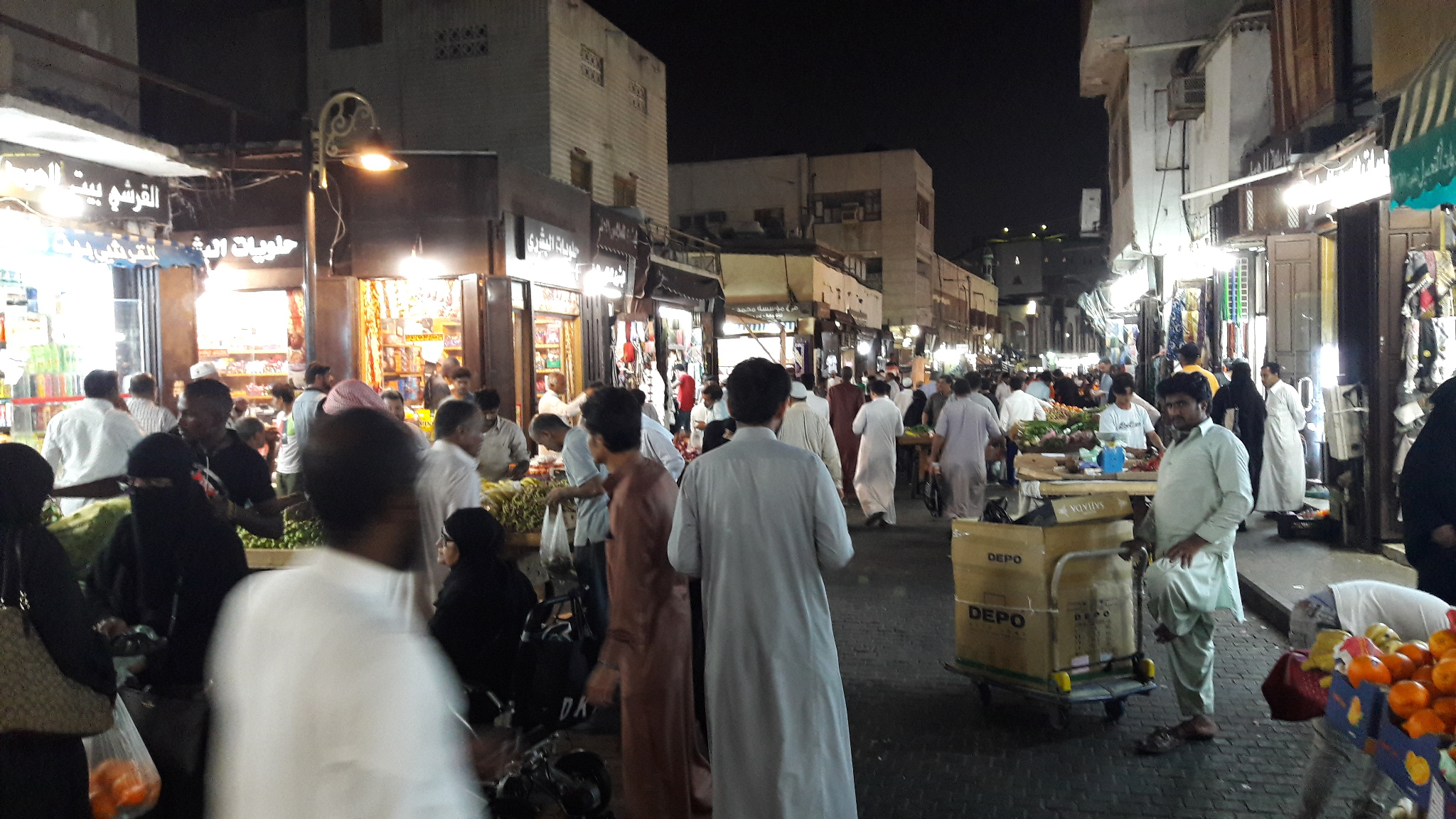 Old Jeddah